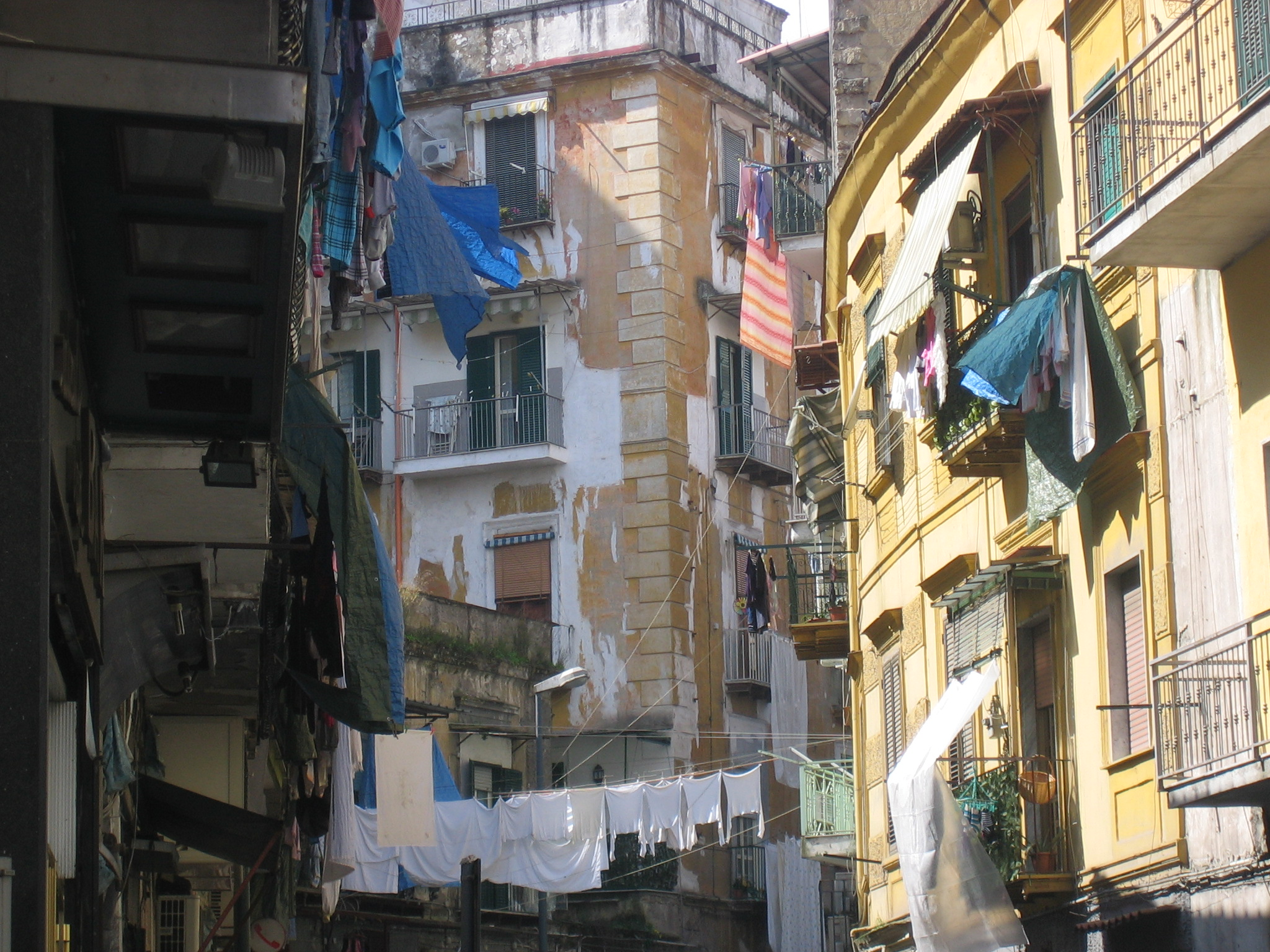 Rione Sanità in Naples